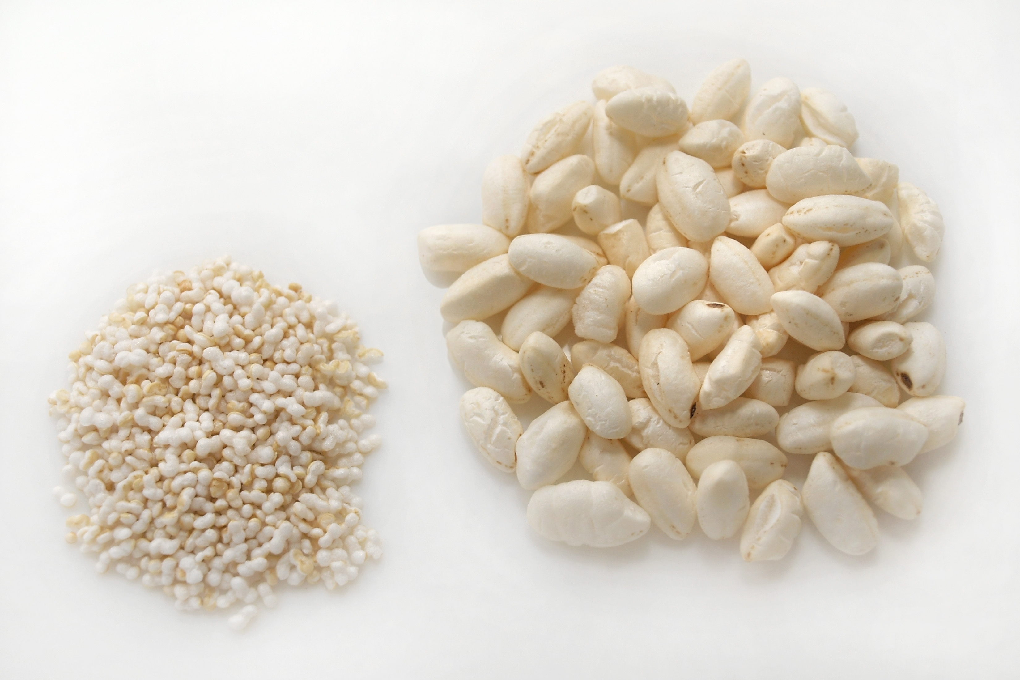 Comparation of puffed grains (toasted like popcorn): amaranth grains (left) and puffed rice